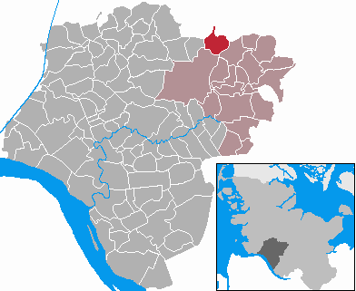 This map shows the area of the municipality Poyenberg in the Kreis (district) Steinburg, Schleswig-Holstein, Germany.